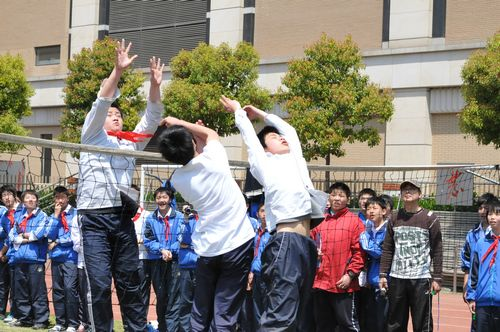 Students are playing volleyball on the playground of Shanghai Jincai Experimental Junior Middle School